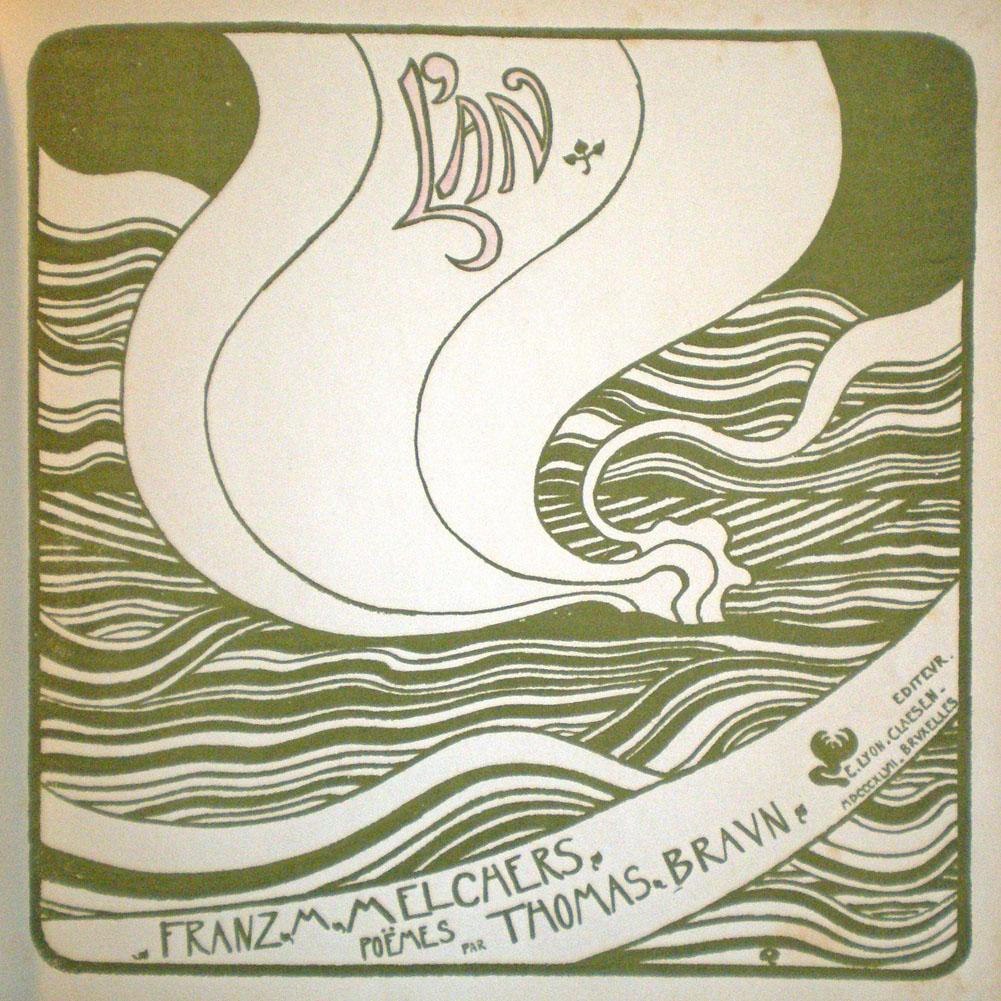 Cover page book " l'an " (The Year) by Thomas Braun, designes by Franz Melchers 1897